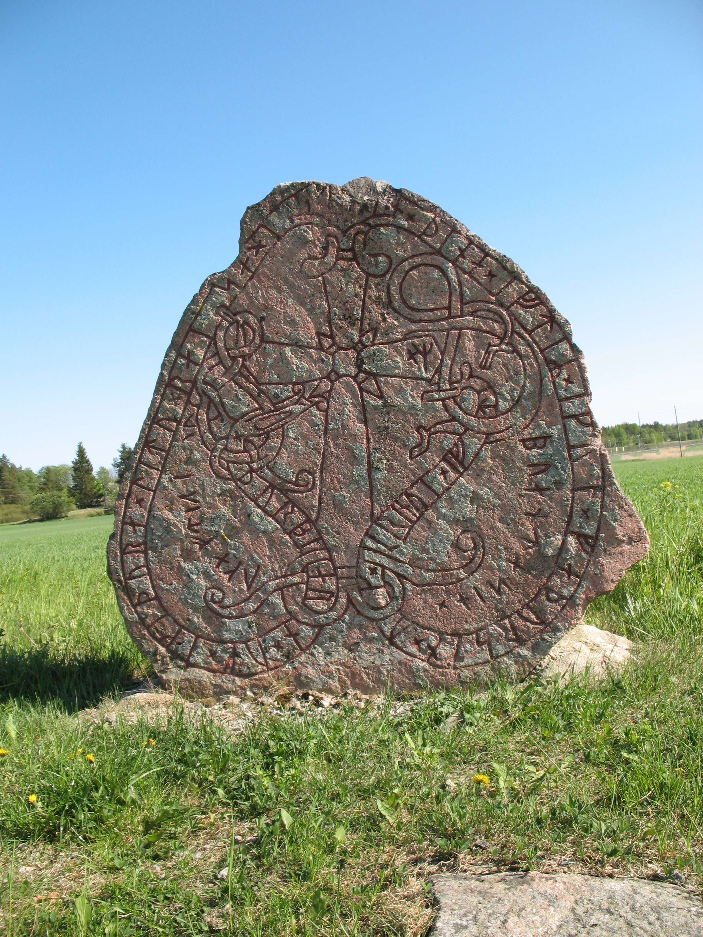 Runestone U 151, Täby.